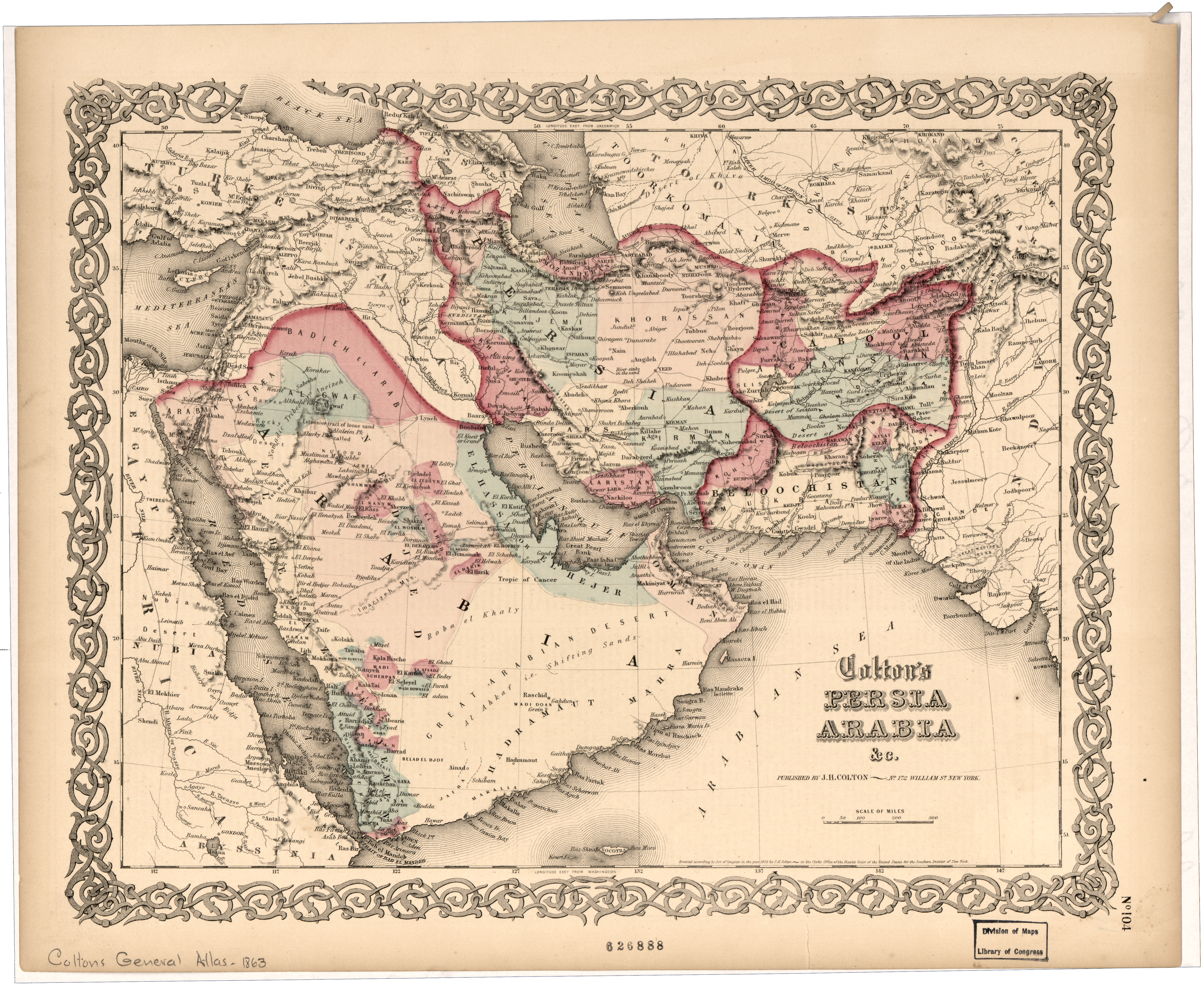 Colton's Persia Arabia etc.